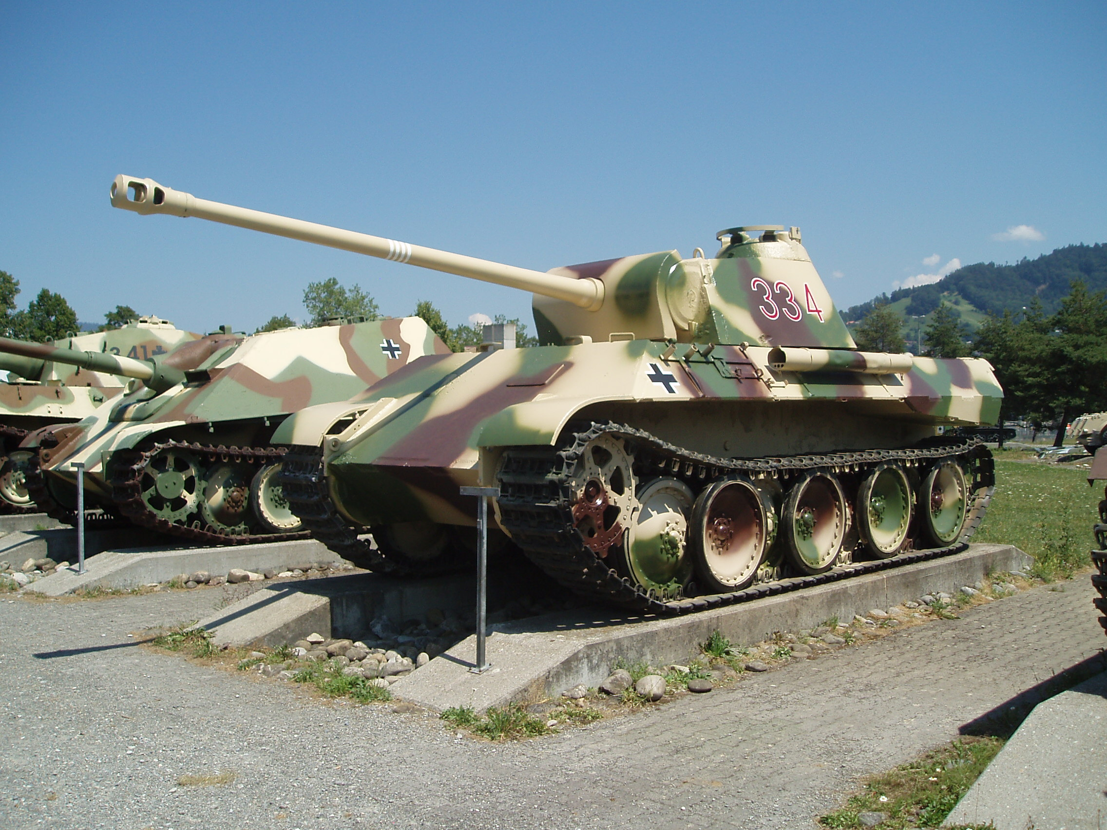 A Panther Ausf. G at the Panzermuseum Thun, Switzerland